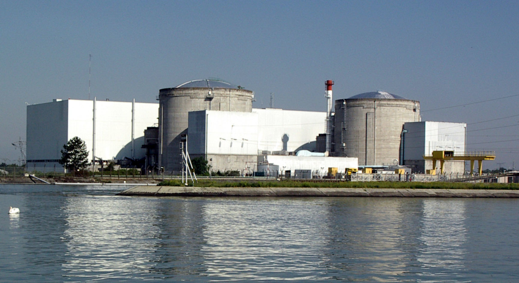 Nuclear power plant Fessenheim, Haut-Rhin, Alsace, France